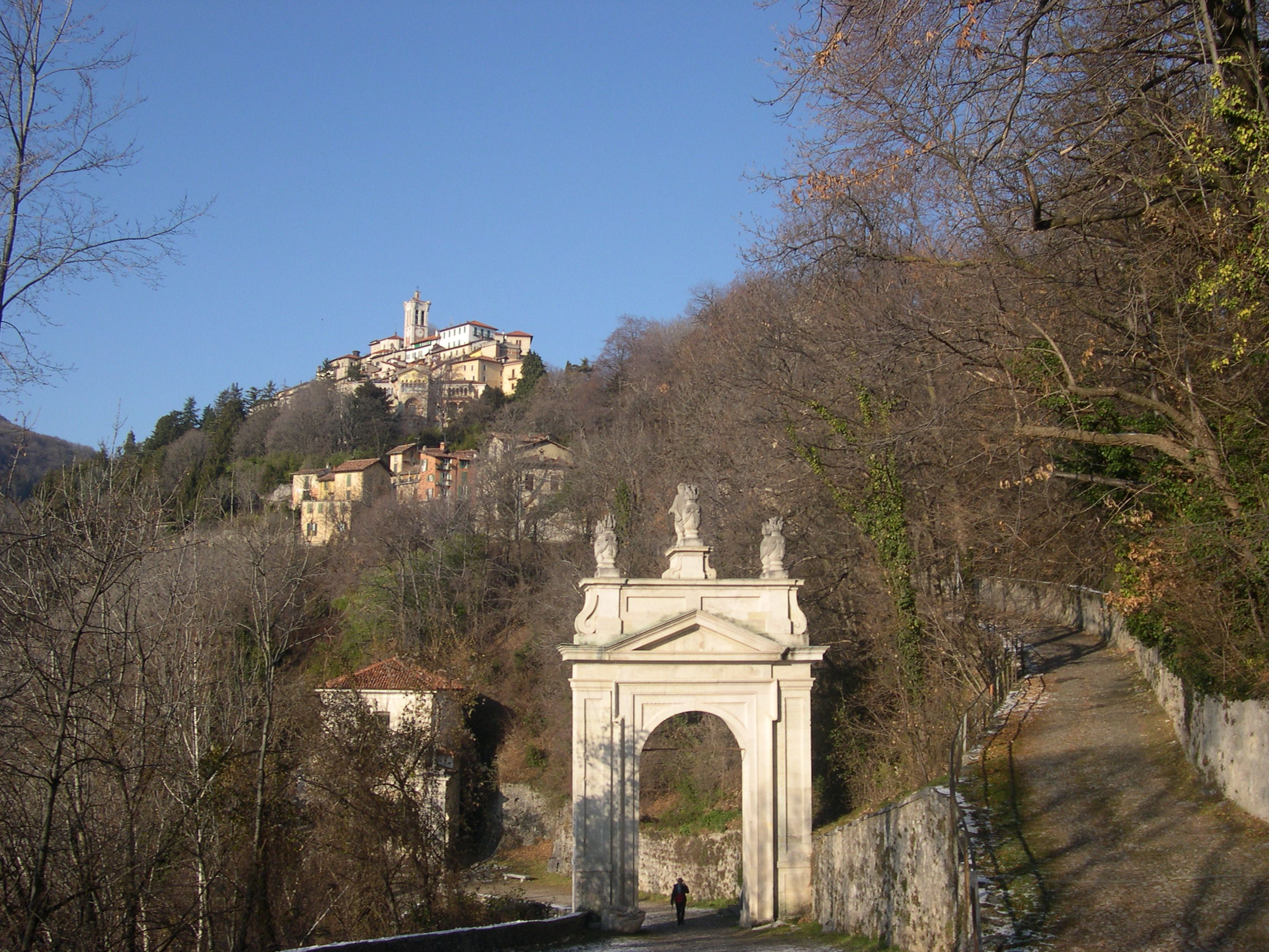 Arch of Saint Ambrogio